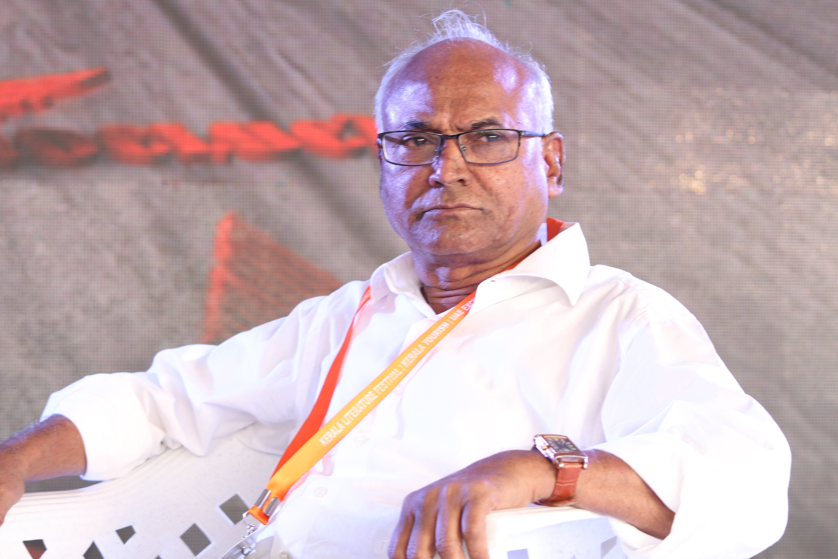 Kancha Ilaiah at Kerala Literature Festival, Kozhikode in 2018